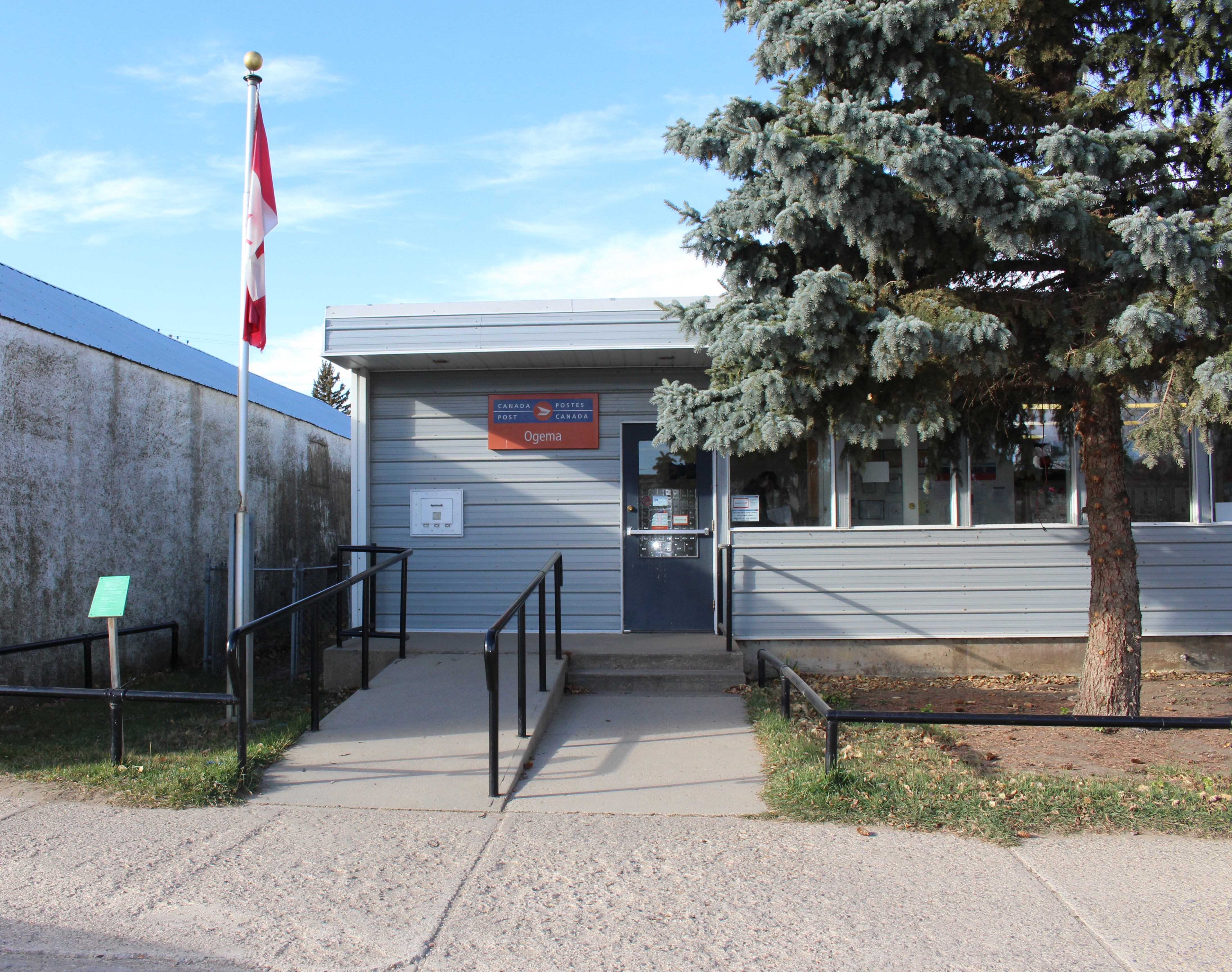 Post office in Ogema, Saskatchewan.